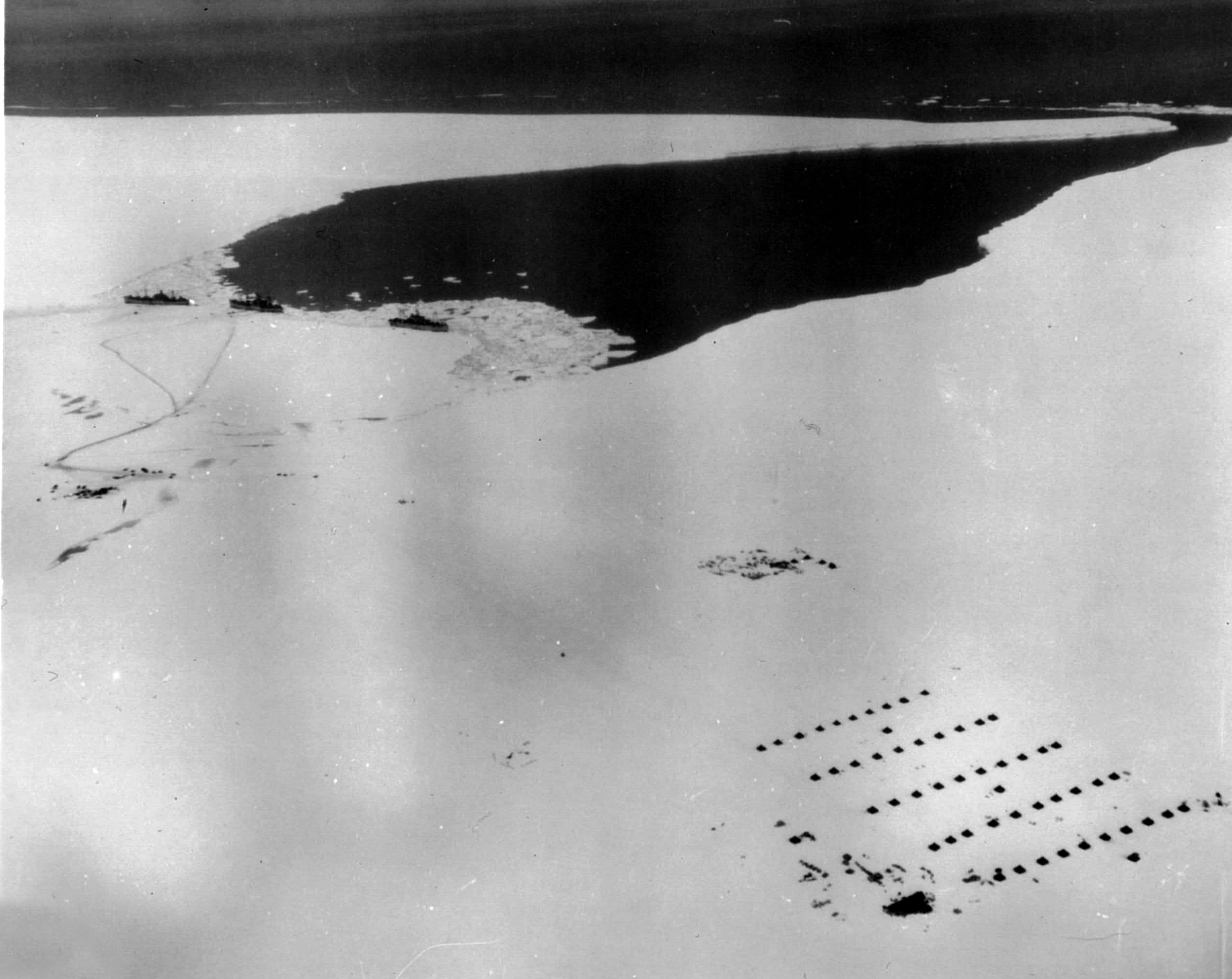 This scanned image of the Little America IV camp is of poor quality due to the condition of the original photo. The camp is in the lower right. Three ships are moored at the ice edge at center left. This expedition was part of the US Navy's Operation Highjump, 1946-1947. Admiral Richard Byrd had established Little America I, II, III, and IV all within this same general area at the Bay of Whales. Ten years later when the US Navy returned to establish Little America V as part of the International Geophysical Year (IGY), they were unable to reach this site due to ice, so built the final Little America station farther east.